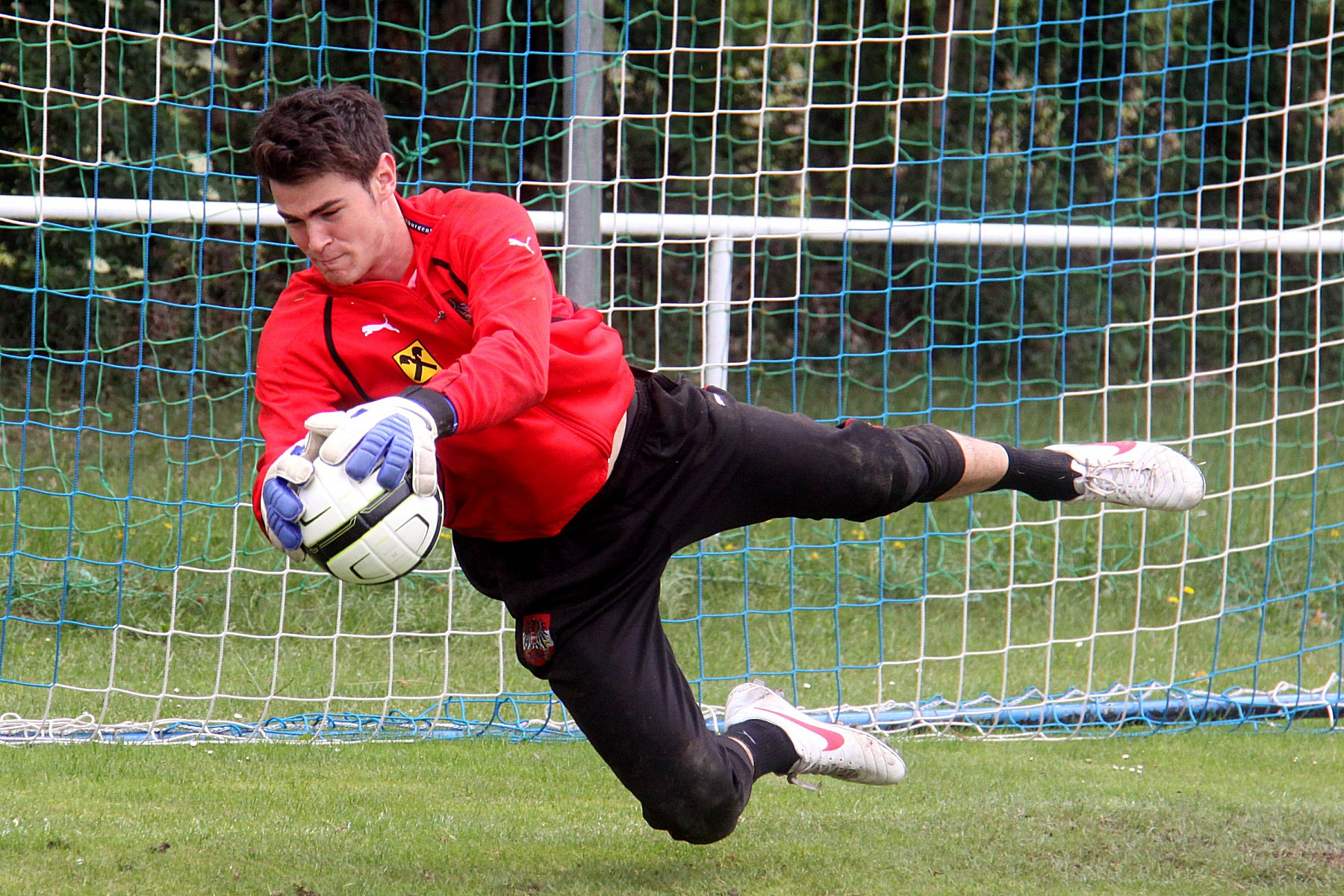 Samuel Radlinger (Hannover 96) - Austria national under-21 football team (age group 1990).